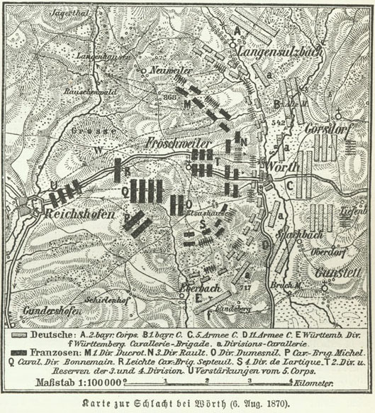 Historical map of the battle near Wörth (06.08.1870).